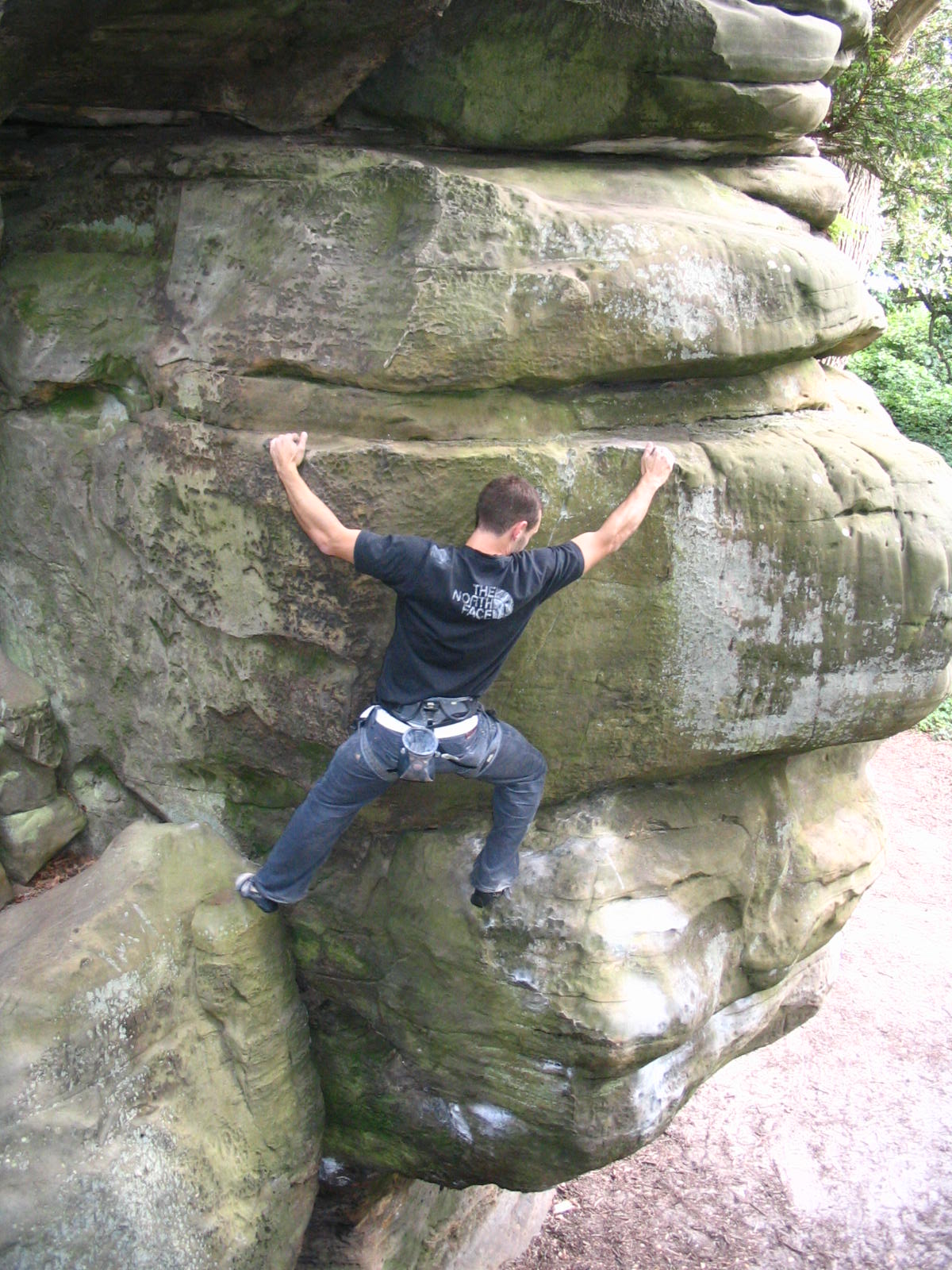 A rock climber scaling a sandstone crag at High Rocks outside Tunbridge Wells, UK.